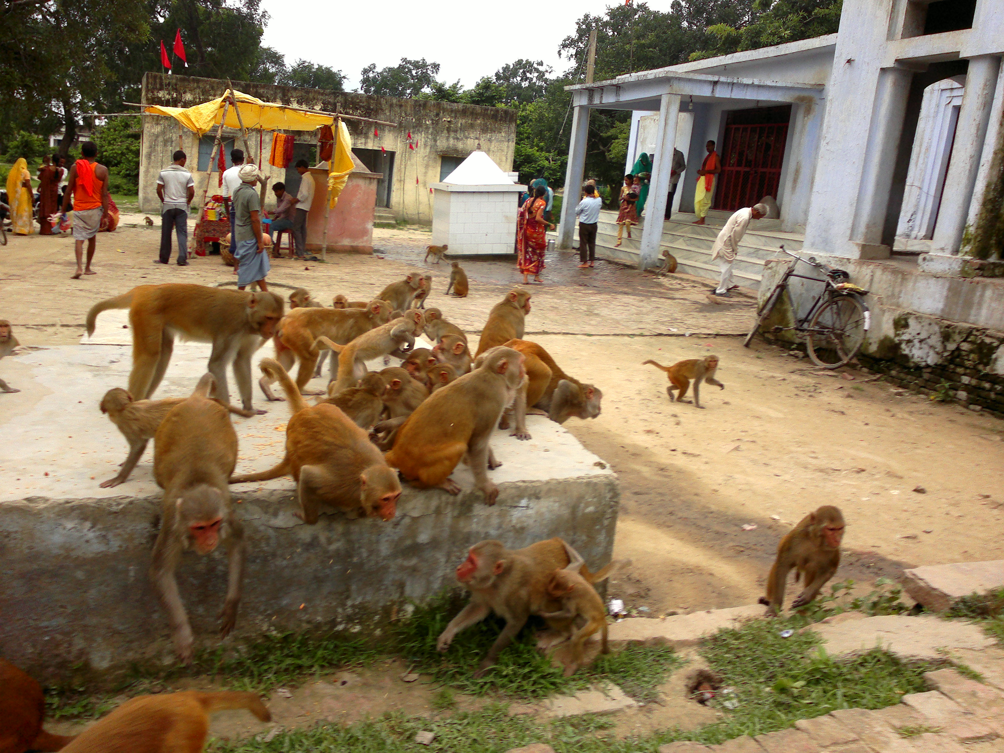 These monkeys reside in the vicinity of temple and eat prasad given by devotees.